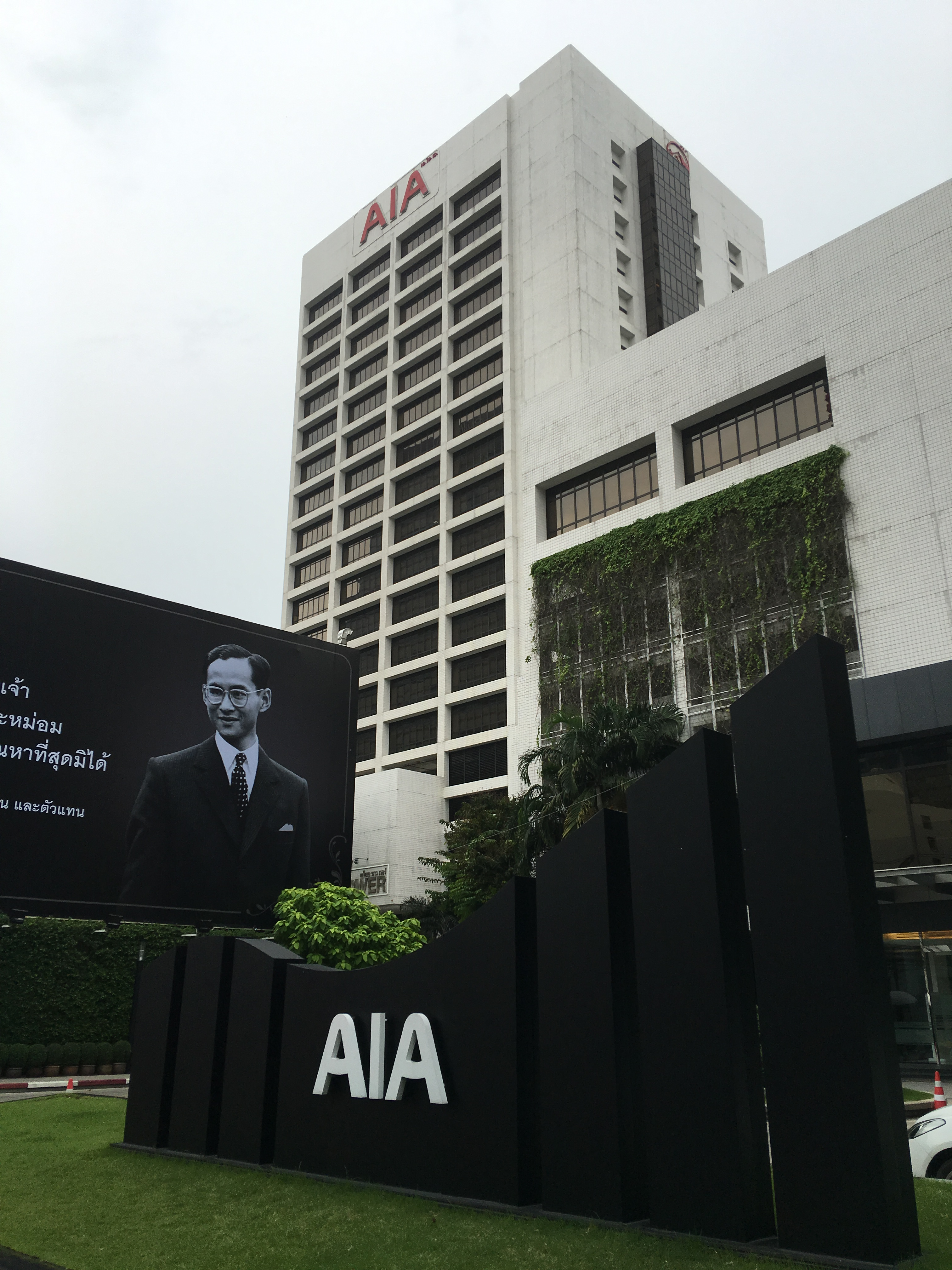 AIA headquarters, a life insurance company in Thailand. Decho Road, Si Phraya district, Bangkok